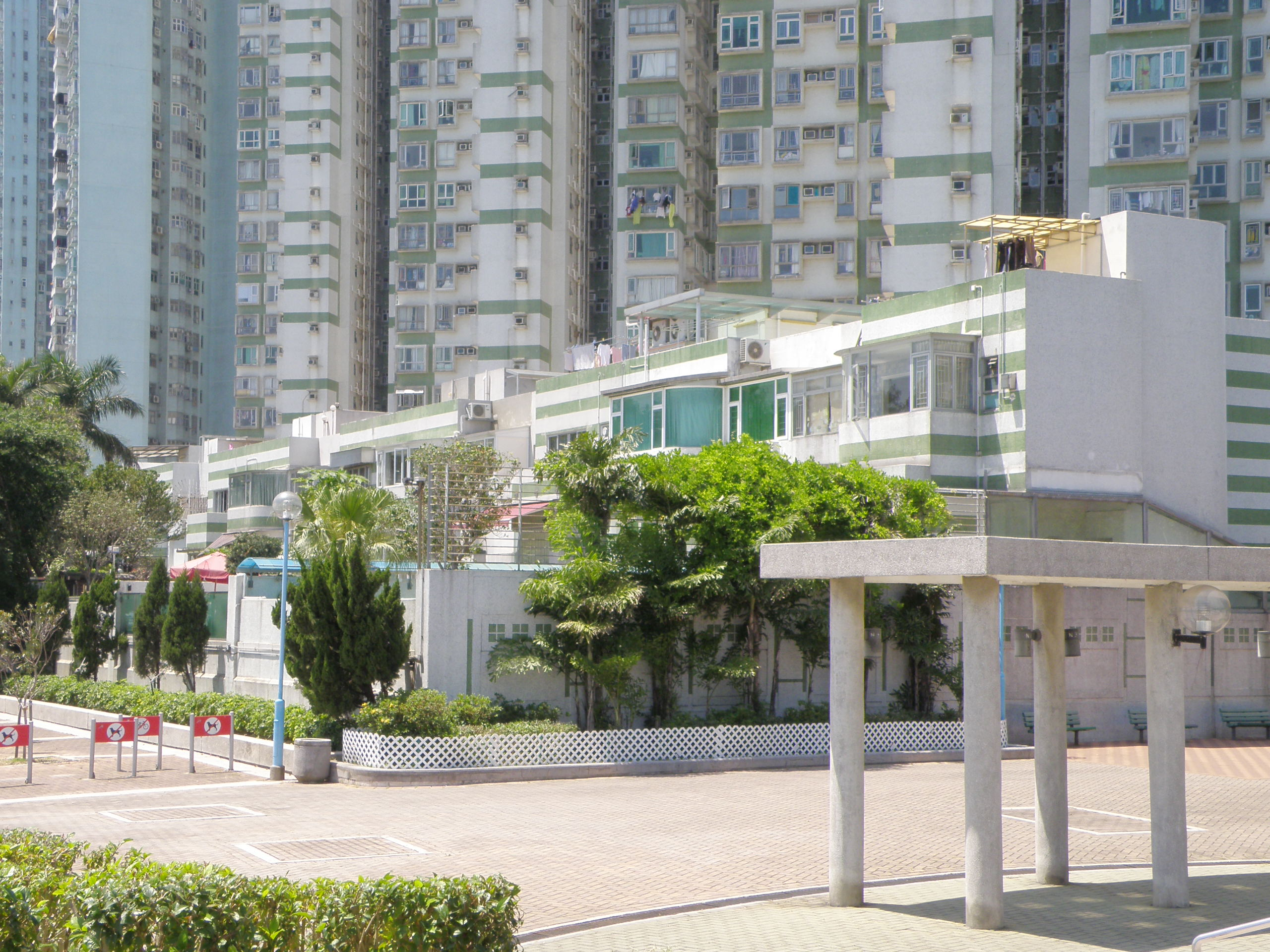 Marina Garden in Tuen Mun, Hong Kong.